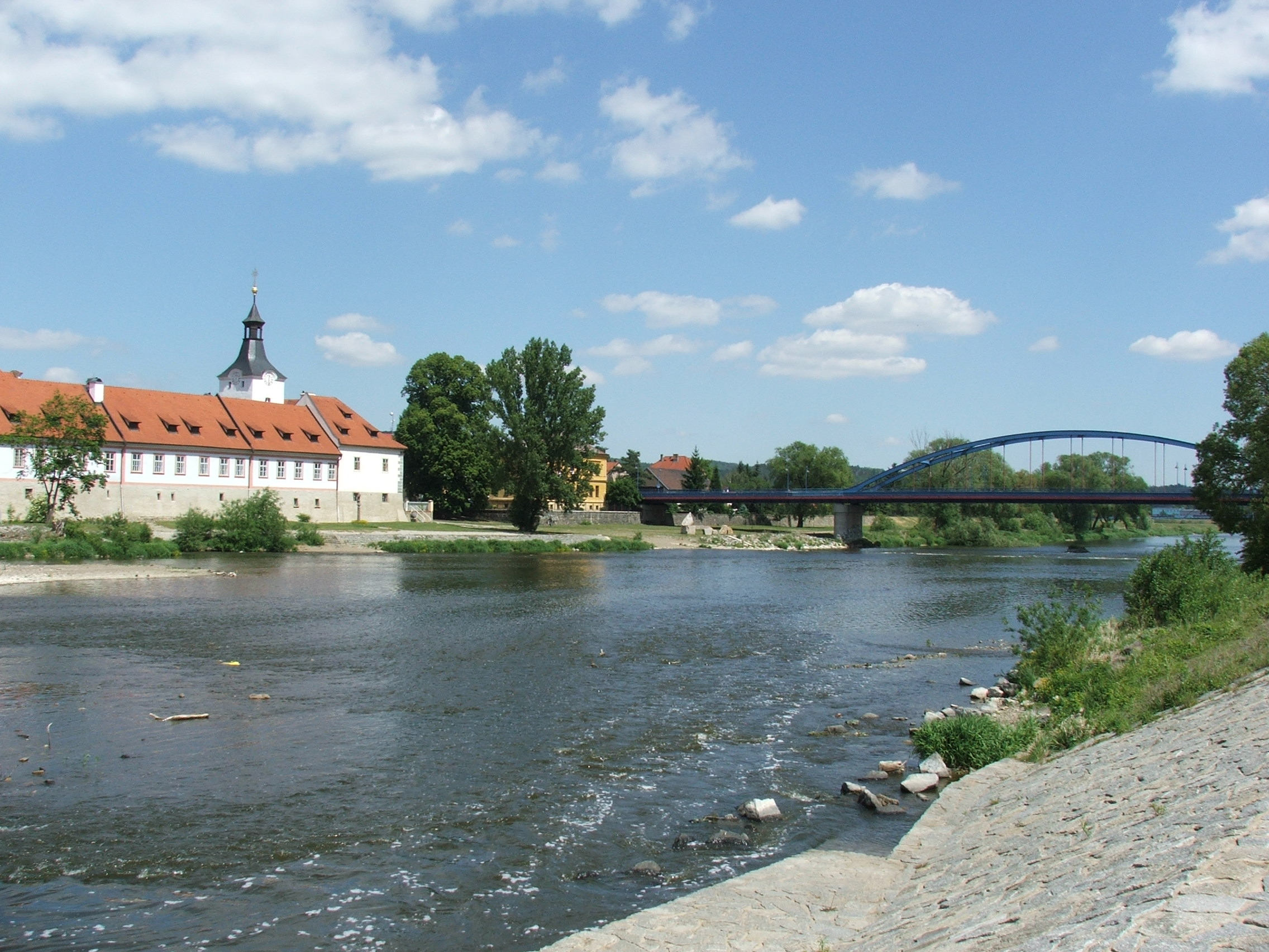 Dobřichovice Castle near Berounka river